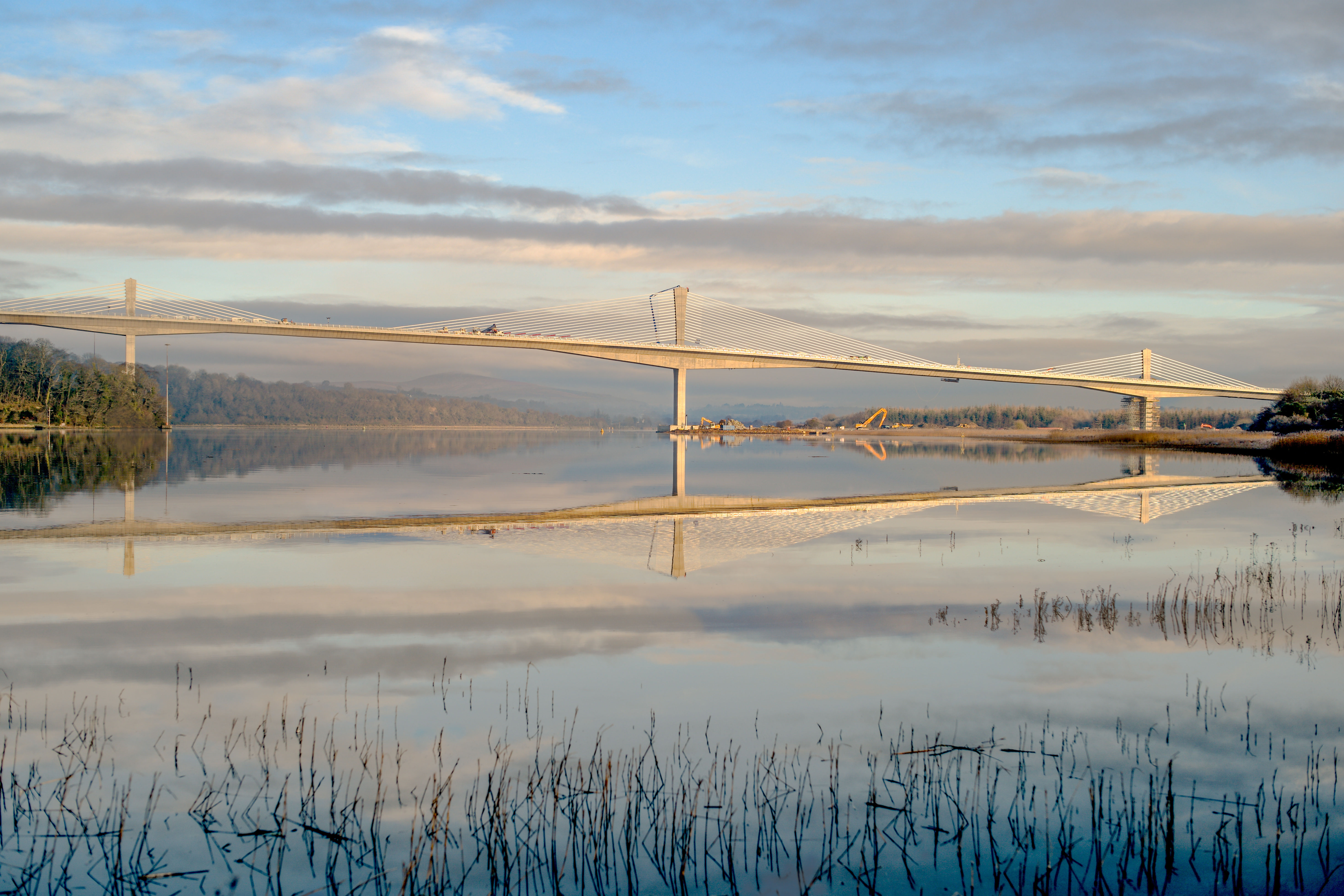 Rose Fitzgerald Kennedy Bridge few weeks before opening to traffic